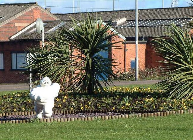 Roundabout by Michelin Factory in Stoke-on-Trent. Michelin Bibendum figure on the roundabout on Campbell Road, next to the Michelin factory.